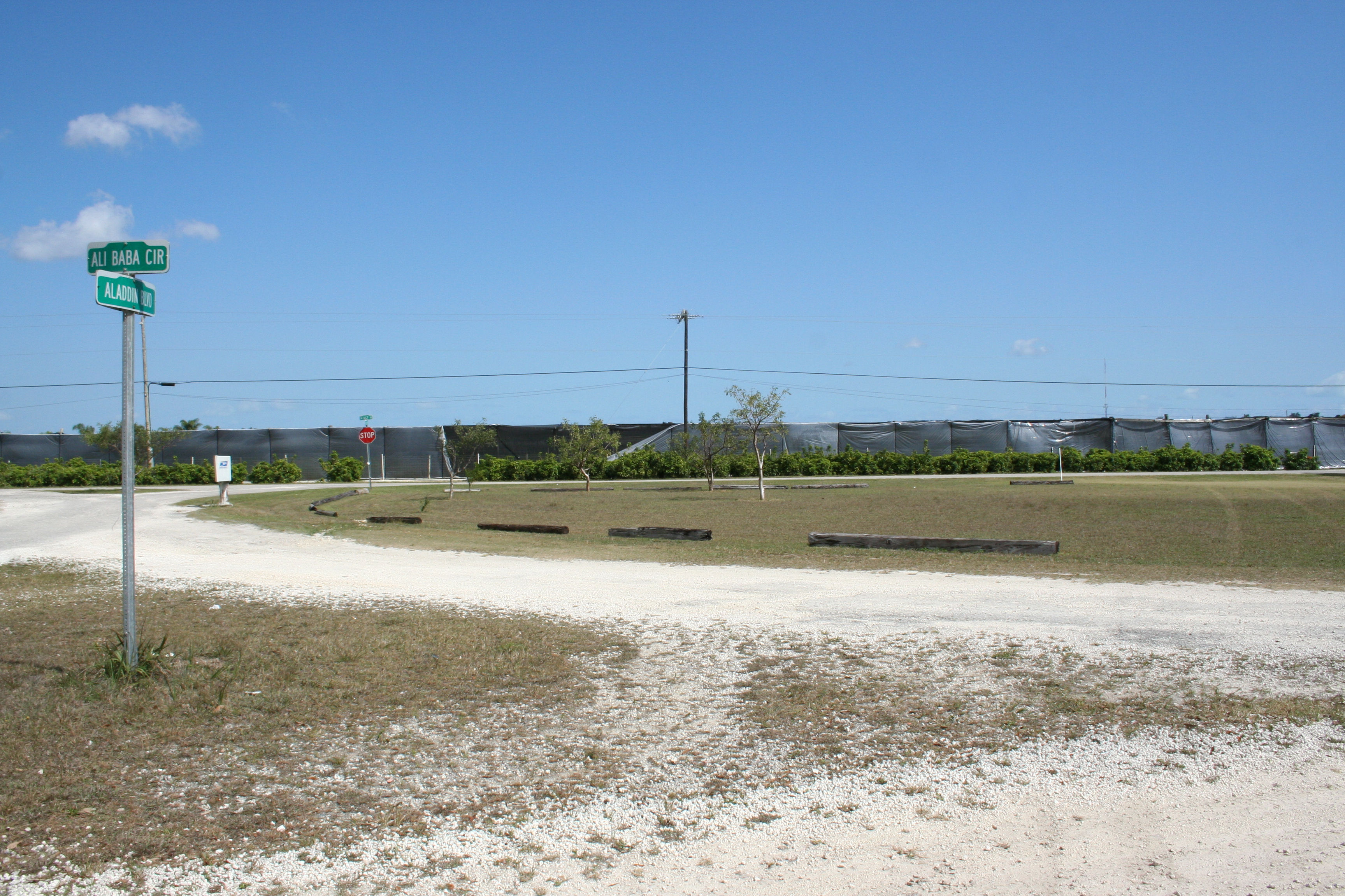 Photograph of present-day Aladdin City